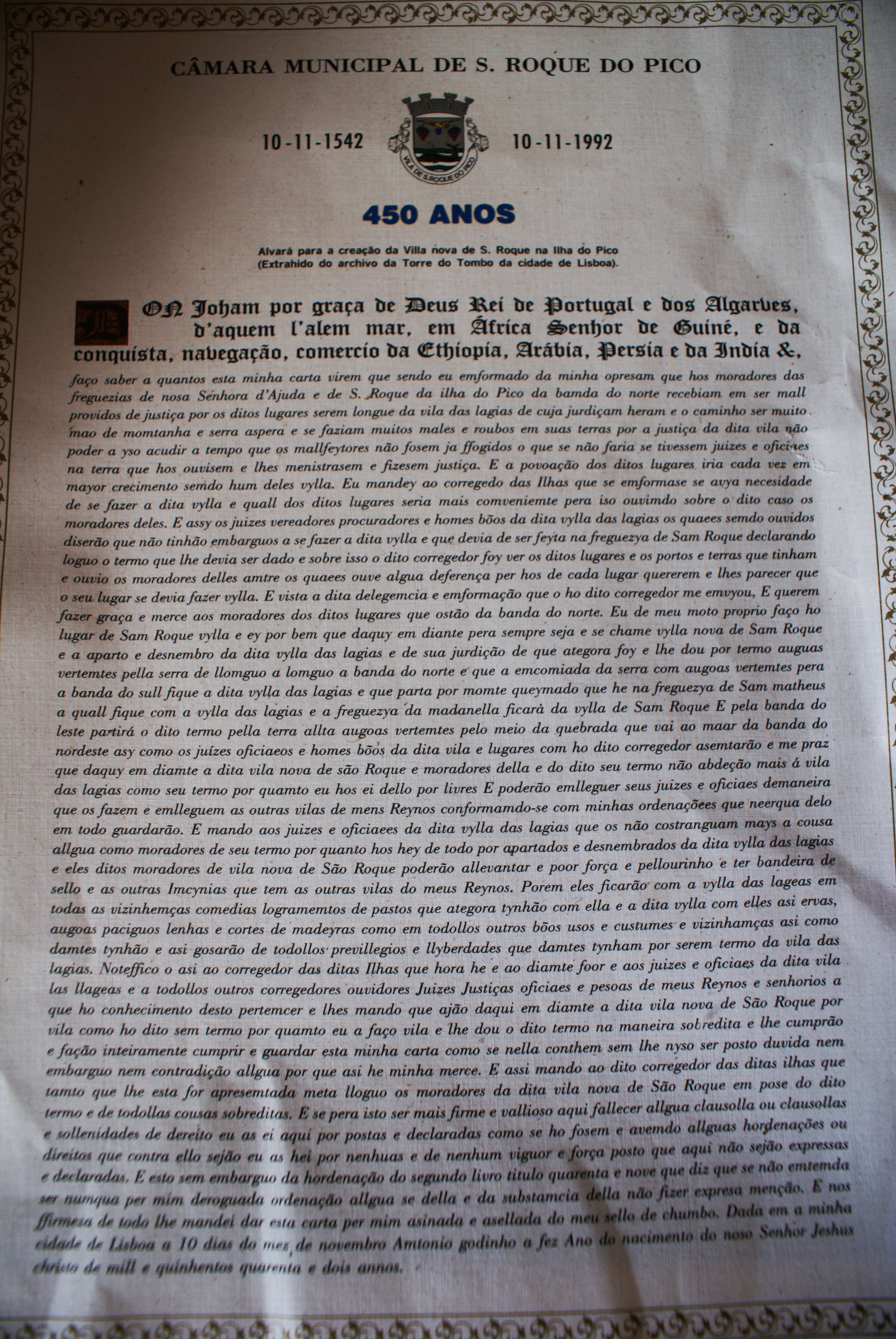 Alvará da criação da Vila de São Roque, São Roque do Pico, ilha do Pico, Açores, Portugal